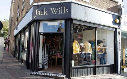 Jack Wills Storefront